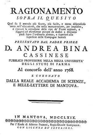 Title page